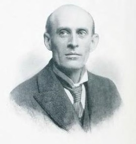 Image